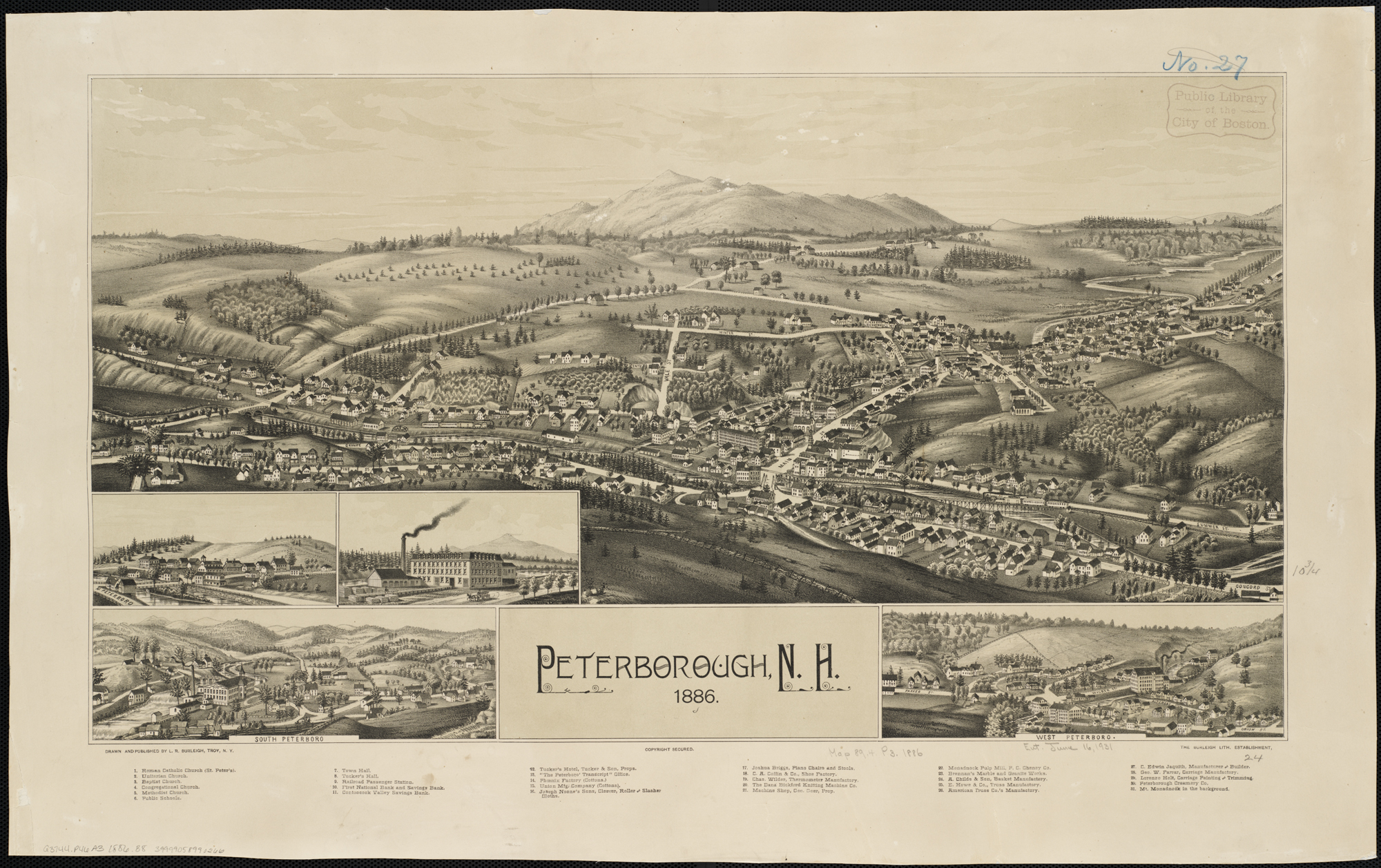 Zoom into this map at . Author: Burleigh, L. R. Publisher: L.R. Burleigh Date: [1886] Location: Peterborough (N.H.) Scale: Not drawn to scale. Call Number: G3744.P46A3 1886.B8